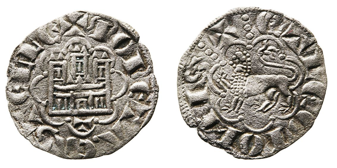 Castilian noven, billon coin minted by king Alfonso X of Castile (1252-1284). Mint of Toledo. Legends: obverse "MONETACASTELLE", reverse "ETLEGIONIS"; which in Latin means "Coin of Castile and Leon", as opposed to earlier coins minted separately by the kingdoms of Leon and Castile.